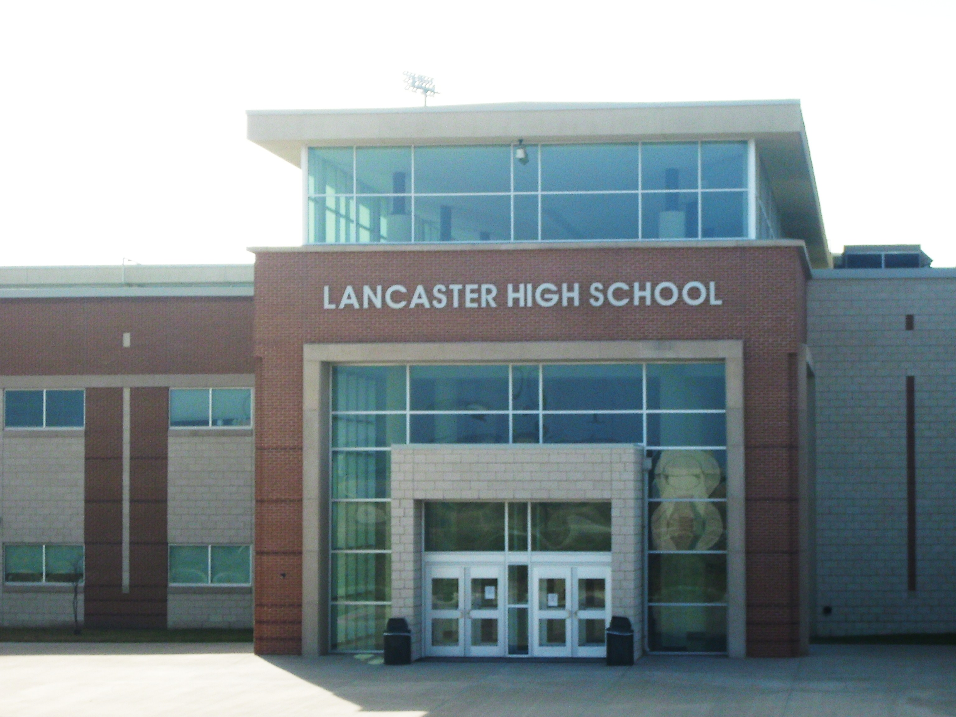 Front entrance of Lancaster High School in Lancaster, Texas.